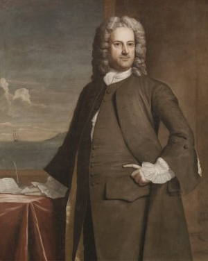 Portrait of Charles Apthorp